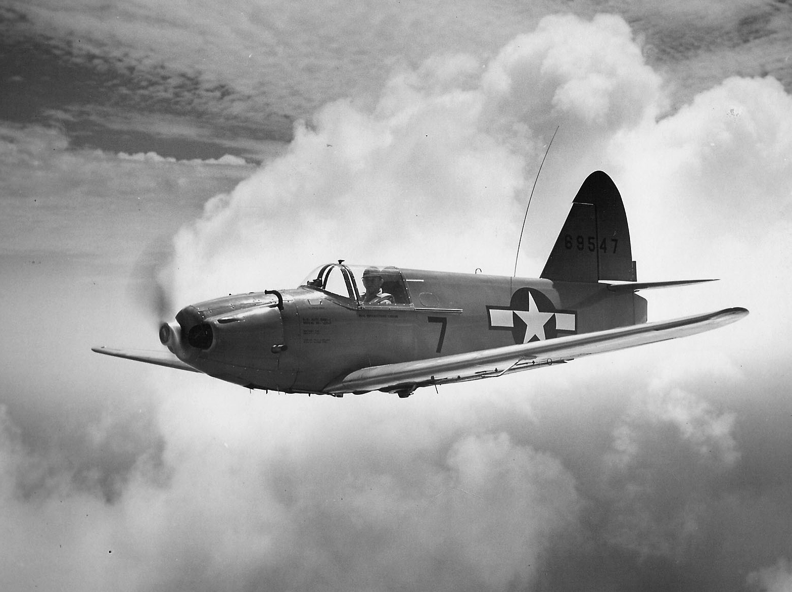 A U.S. Navy Culver TD2C-1 target drone (BuNo 69547) flown by naval aviator Jack V. Robinson in flight, circa in 1945. In 1940, the U.S. Army Air Corps drew up a requirement for a radio-controlled target drone for training anti-aircraft artillery gunners. The first aircraft in a series of target drones was a modification of the Culver LFA Cadet which eventually led to the PQ-14 series used throughout World War II and beyond. 1,198 were transferred to the U.S. Navy, which designated them as TD2C-1 with the decidedly unattractive name Turkey.